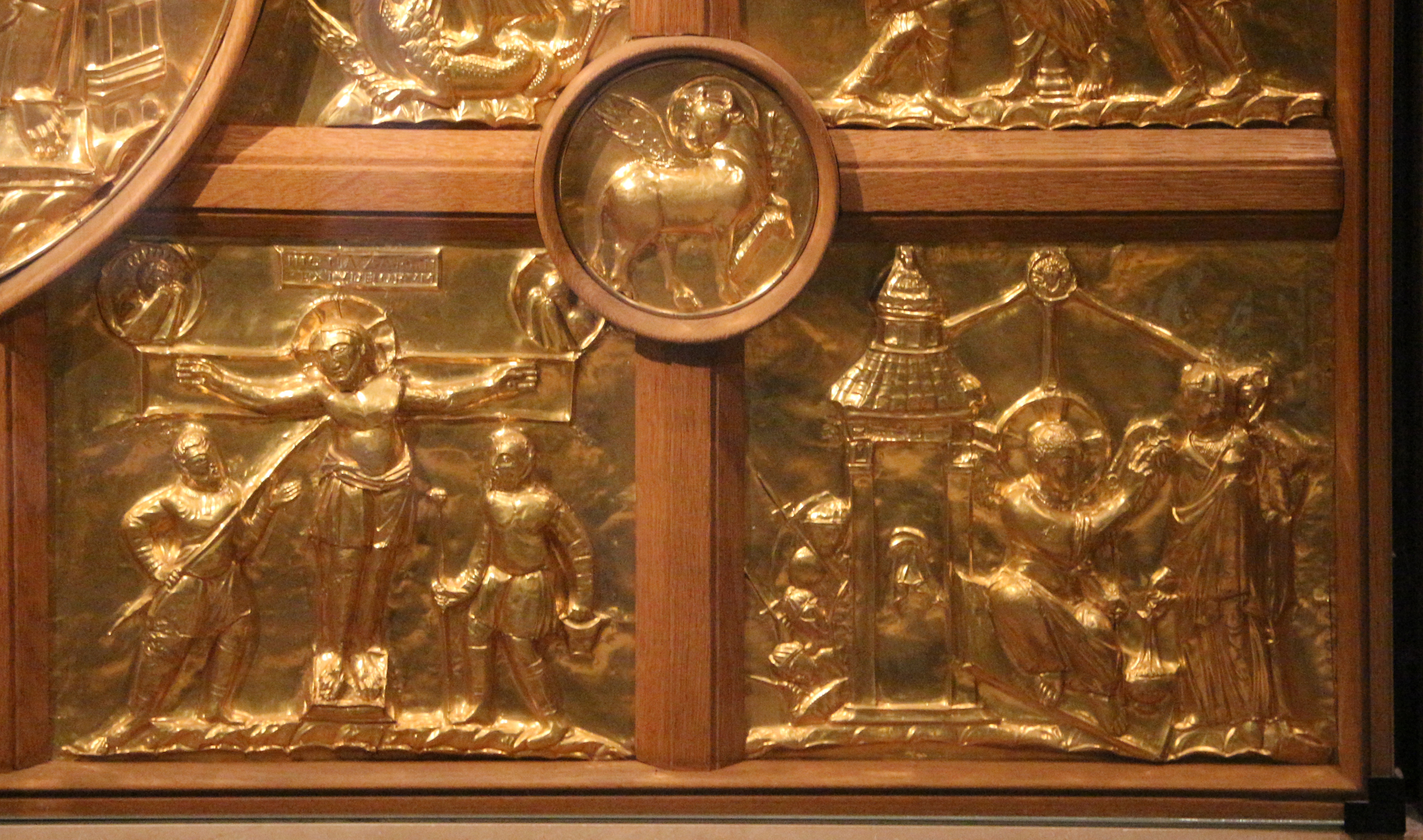 Pala d’oro (Aachen)